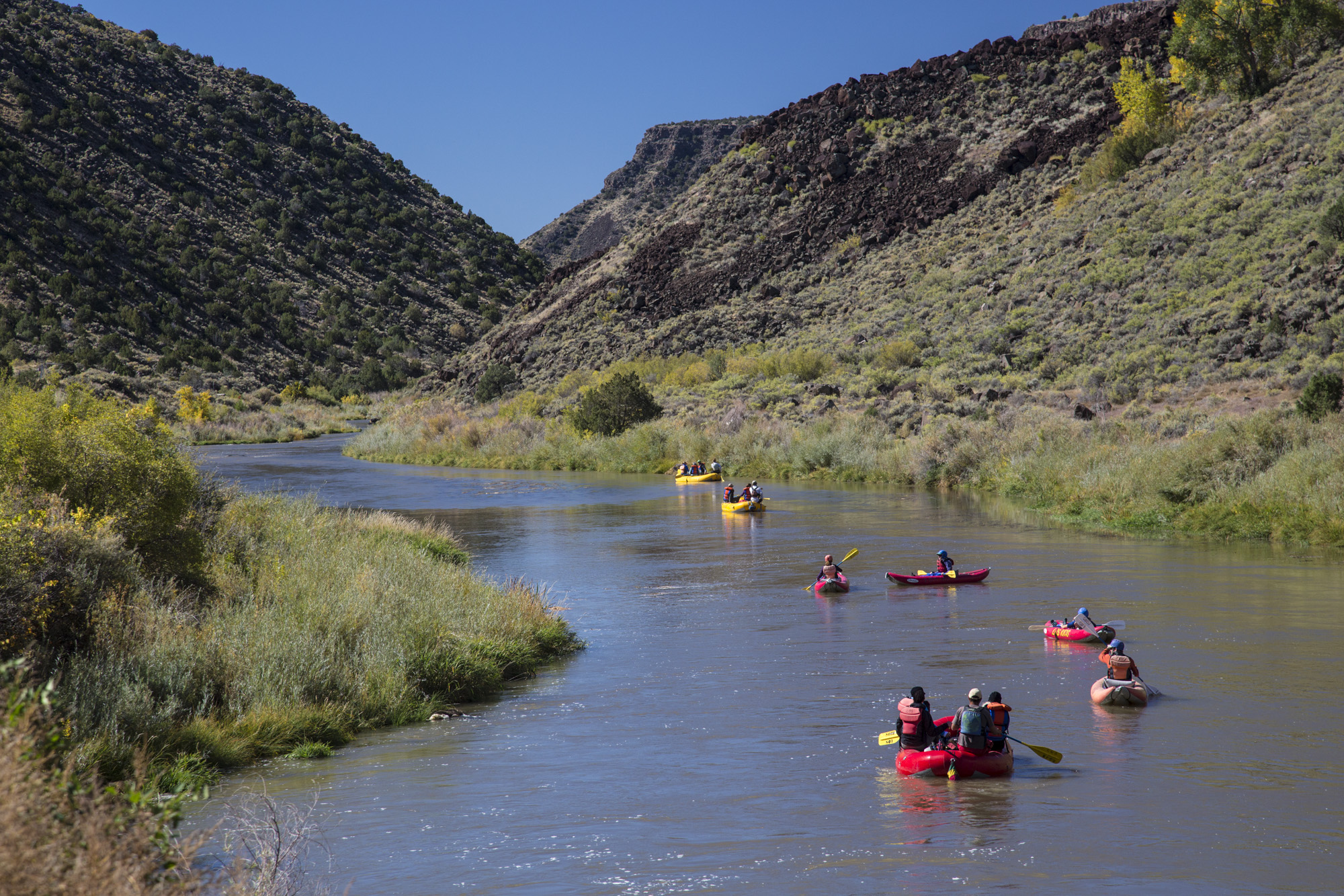 Go for a hike and listen for an eagle as it soars above an 800-foot gorge, fish in world-class trout waters, marvel at a herd of elk crossing the desolate plateau, or raft alongside the river otter. You have entered the natural world of the Río Grande del Norte National Monument! The landscape of this special place in northern New Mexico is a showcase of stark, wide open spaces covering 242,500 acres. At an average elevation of 7,000 feet, the monument is dotted by volcanic cones and cut by steep canyons. While the Río Grande carves a deep gorge through layers of volcanic basalt flows and ash, nearby cottonwoods and willows shelter abundant songbirds and waterfowl. An amazing array of wildlife dwells among the piñon and juniper woodlands and the mountaintops of ponderosa, Douglas fir, aspen, and spruce (some 500 years old). Raptors, mule deer, cougar, and black bear are not uncommon. Be alert! At any moment bighorn sheep may appear! Since prehistoric times this area has attracted human activity, as evidenced by petroglyphs, prehistoric dwelling sites, and many other types of archaeological discoveries. Abandoned homesteads from the 1930s reflect more recent activity. On March 25, 2013, a Presidential proclamation designated the area a national monument, managed by the Bureau of Land Management as part of the National Landscape Conservation System. Learn more about the monument: Photos by Bob Wick, BLM